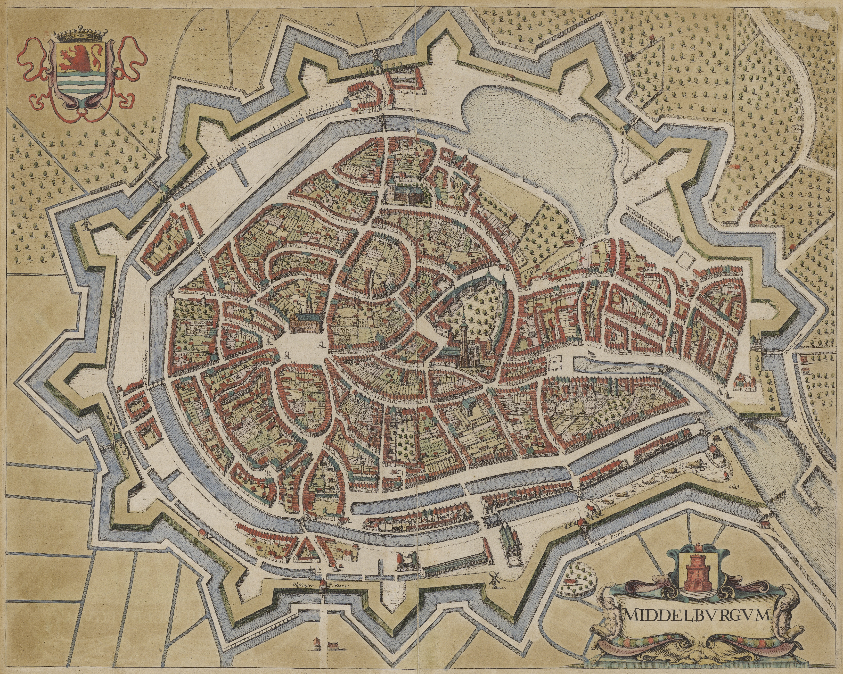 Town map of the capital city of Middelburg, Zeeland, Netherlands